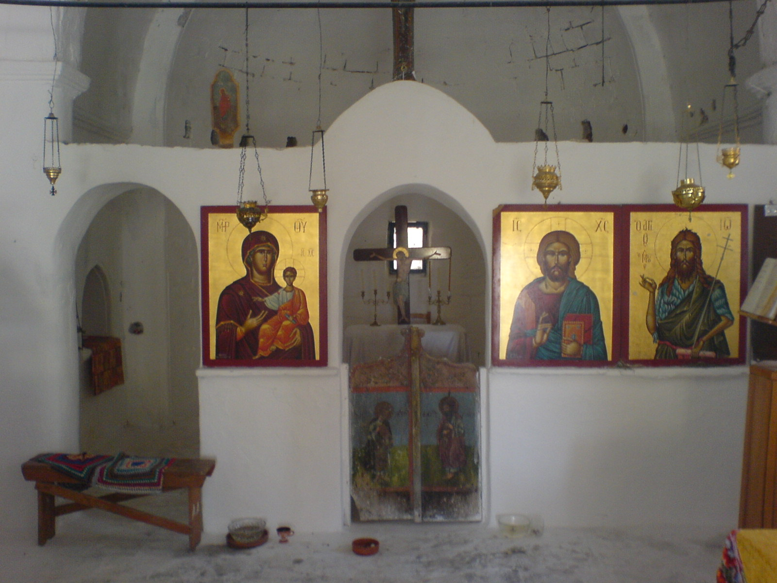 Interior of the church in the Andimachia Castle Kos